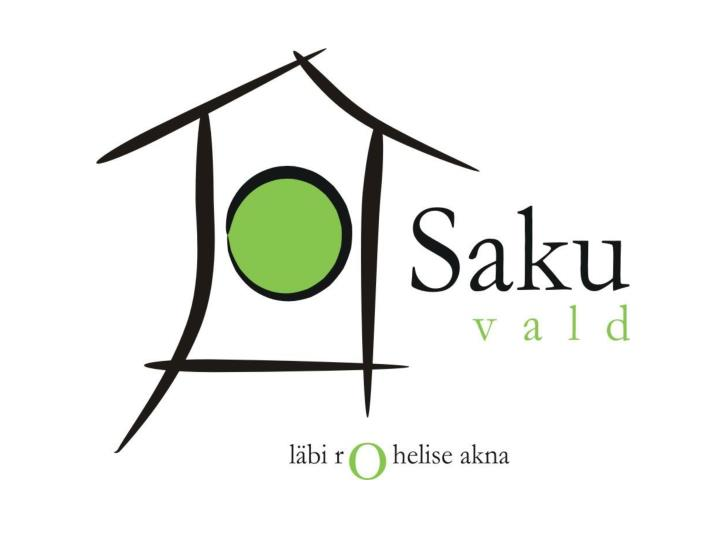 Logo of Saku Parish, Estonia